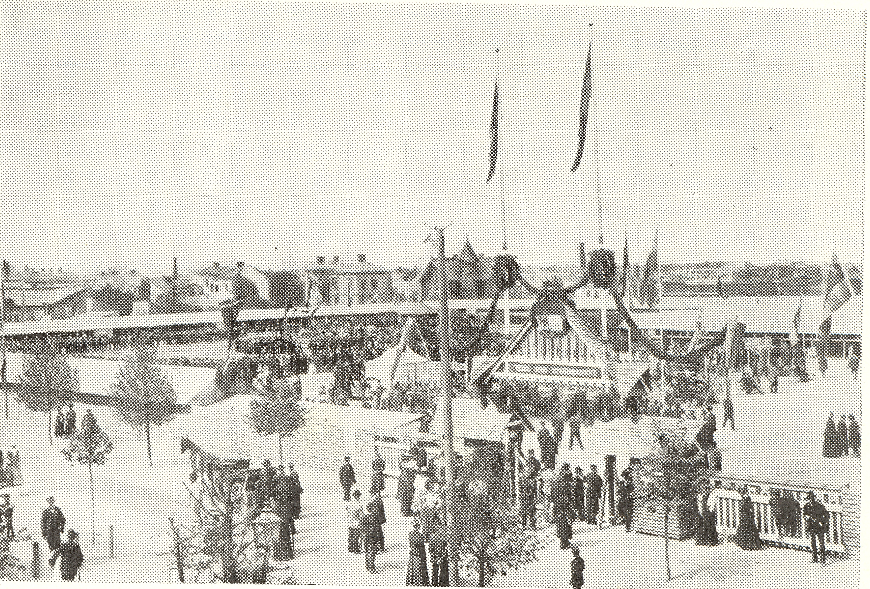 The Örebro fair in 1899